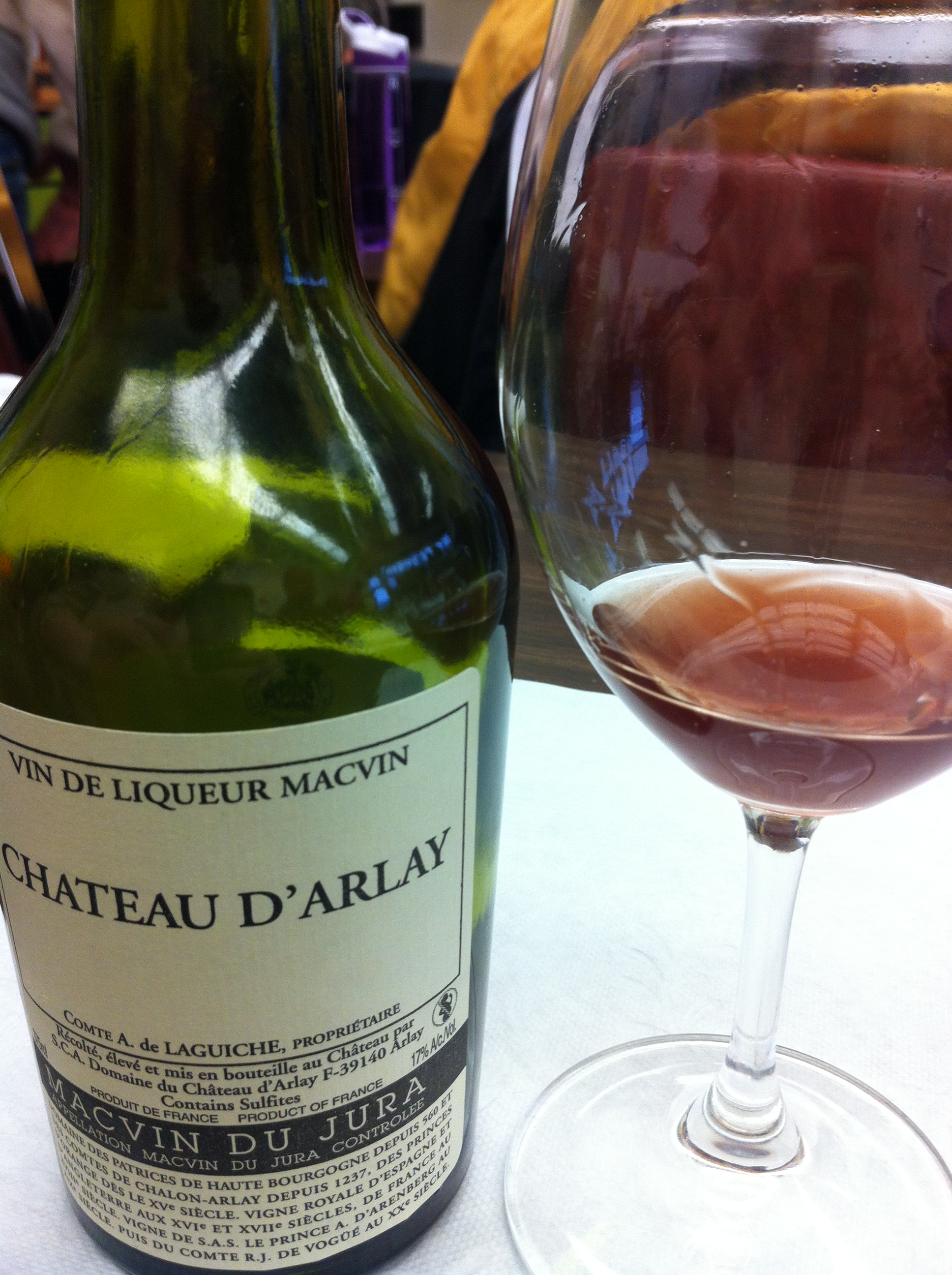 Red Macvin du Jura made from late harvested Poulsard, Trousseau and/or Pinot noir in a vin de liqueur style where the grape must is fortified with alcohol spirit just after crushing to prevent fermentation.